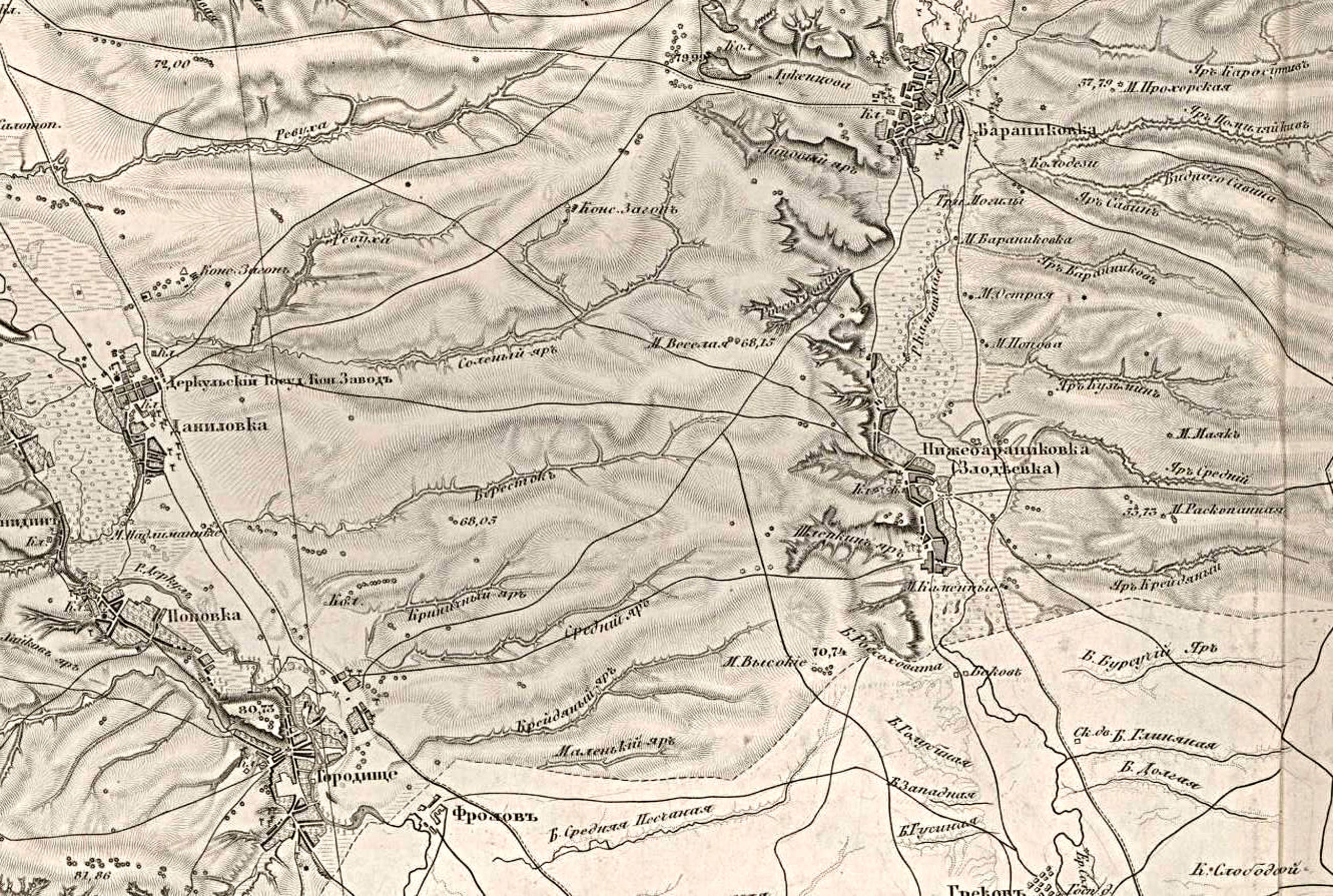 Part of the map of the XIX century, which depicts the area of accommodation Starobilsk plot expedition of Vasily Dokuchaev